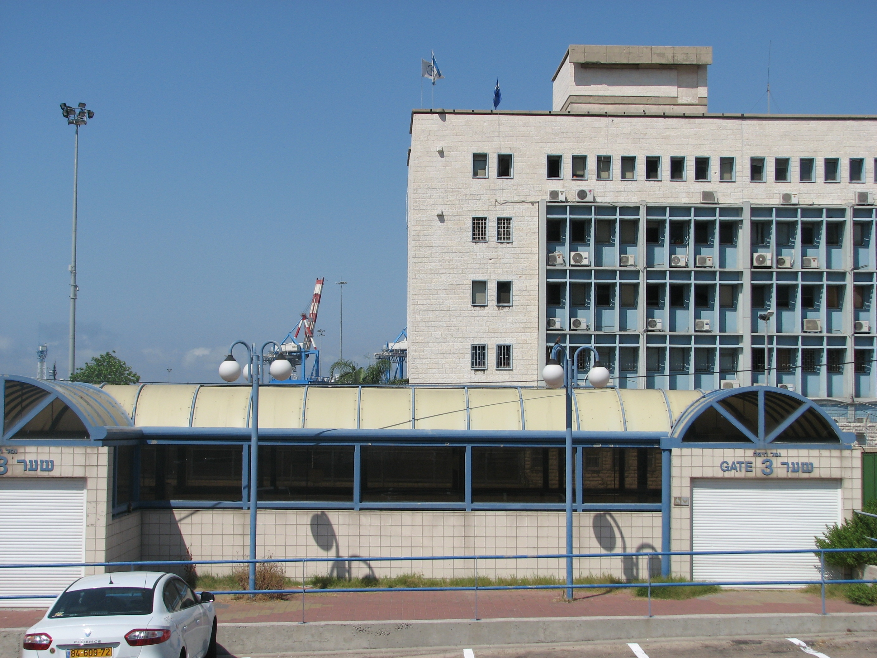 Gate 3 at the Port of Haifa, with the fairly ugly customs-and-duty house.